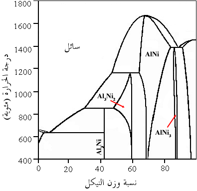 Phase diagram of Ni-Al binary system. Source: Wainwright MS. Skeletal metal catalysts. In Preparation of Solid Catalysts, Ertl G, Knözinger H, Weitkamp J (eds). Wiley-VCH: Weinheim, 1997: 28-42.